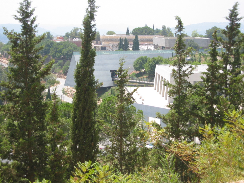 Yad Vashem Jerusalem, Geography of Israel